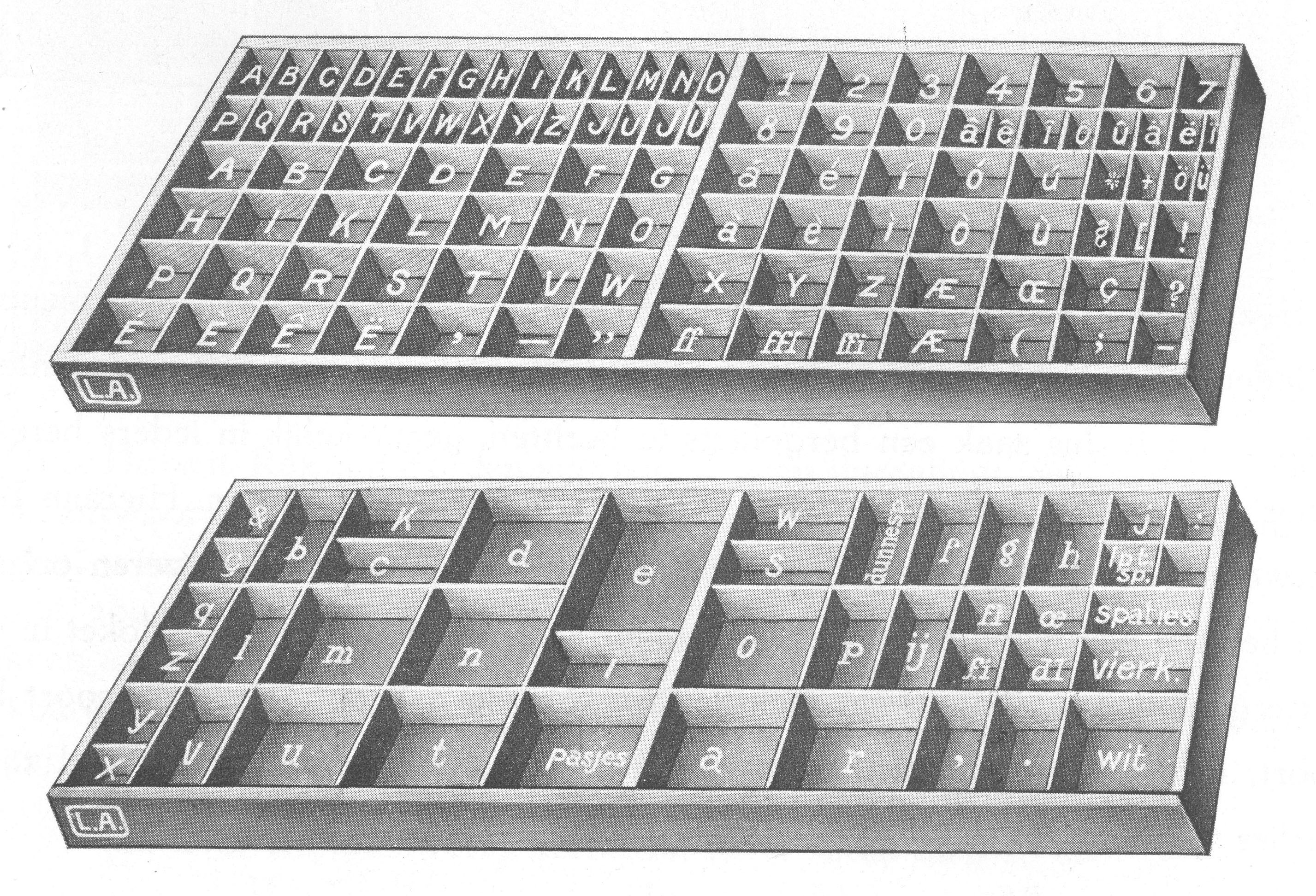 Lettercase (lower case and upper case) with Dutch division